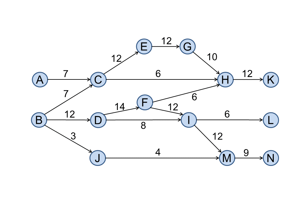 This figure shows the SPNP values for each link in a sample citation network.